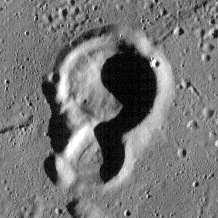 Concentric crater Archytas G (bigger one) and a smaller unnamed crater, also with signs of concentricity, on the Moon, in Mare Frigoris, on a volcanic dome (look Wöhler & Lena, 2009). Diameter of Archytas G is 7.3 km. It is number 1 in the list of concentric craters by Wood, 1978 (the smaller one is not included). Photo by Lunar Reconnaissance Orbiter, made with Wide Angle Camera on 14 December 2010 from altitude 45 km. Sun elevation is 10.6°. Width of the photo is 16 km, north is approximately up.